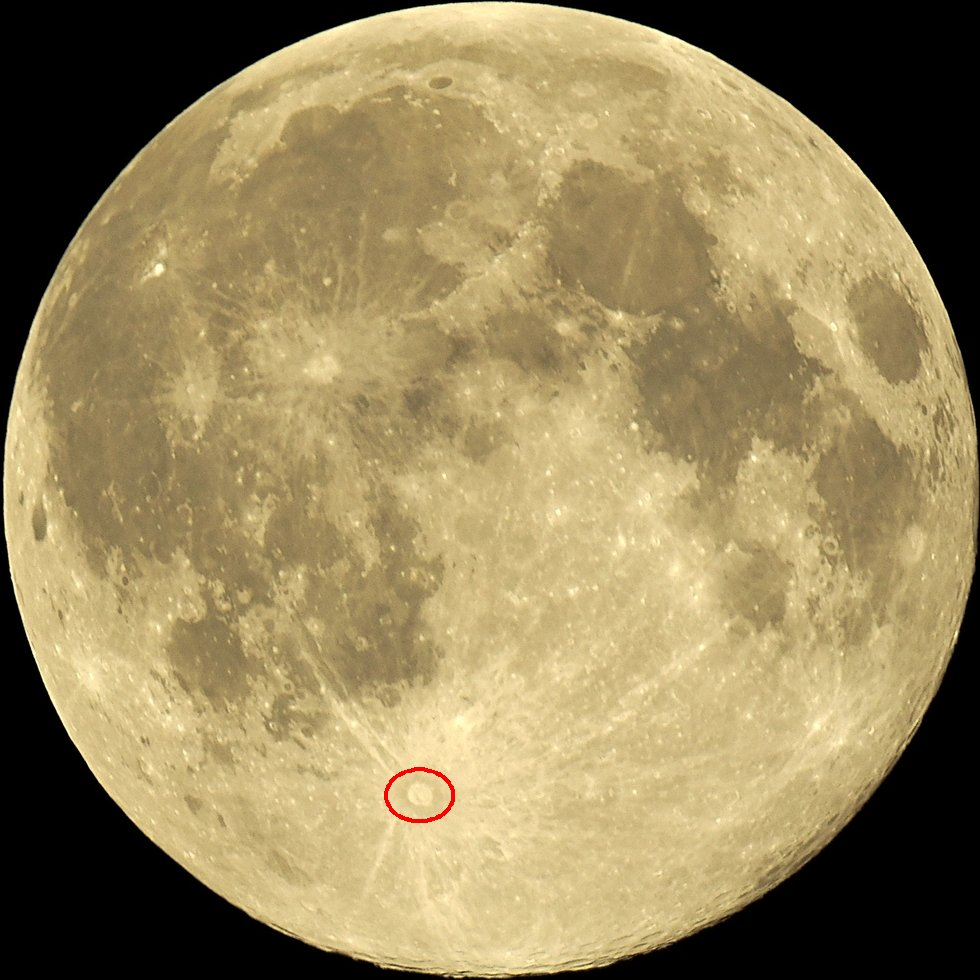 Location of crater Tycho on the Moon